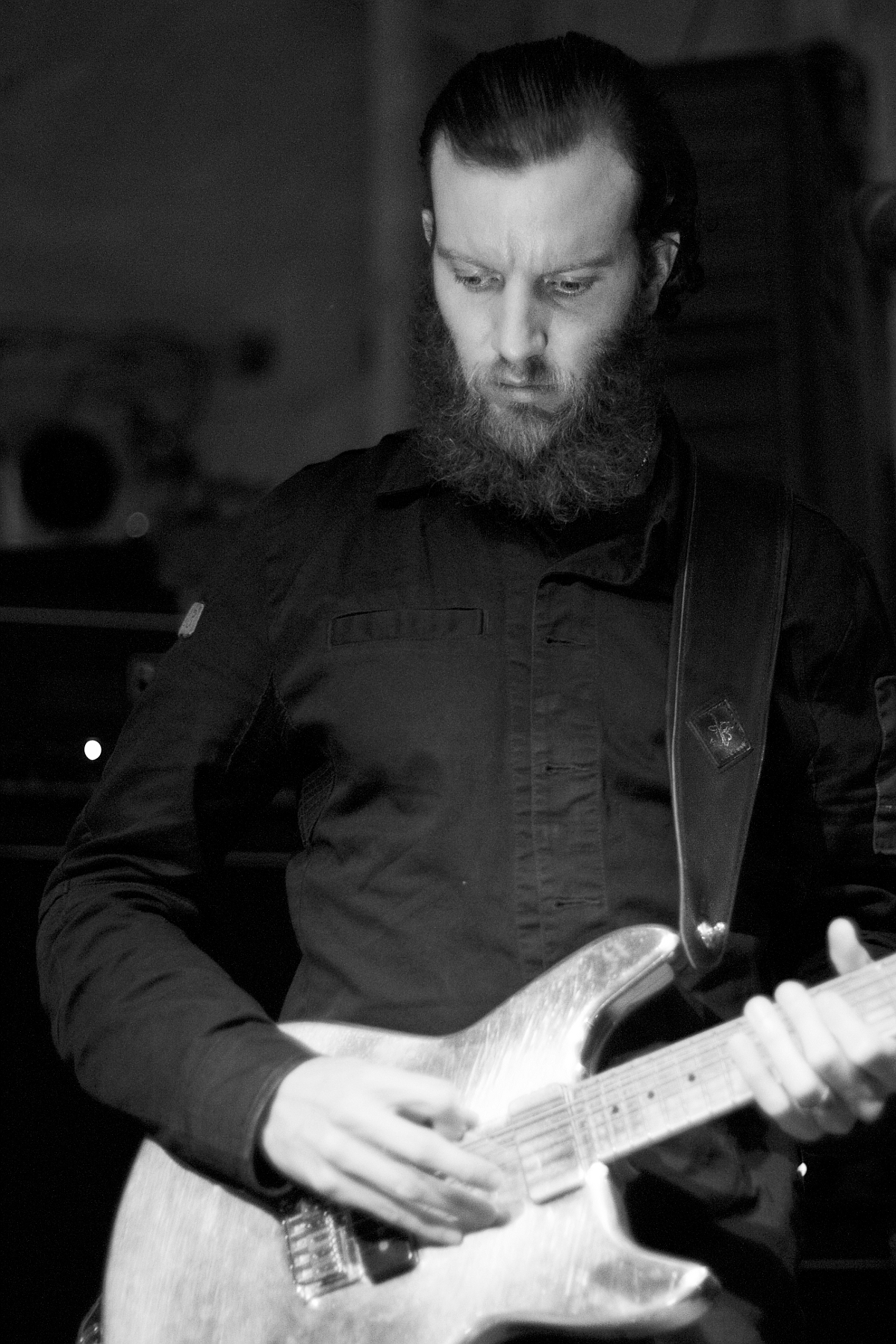 Aaron Turner, singer and guitarist of Californian post-metal band Isis, during a concert at Stuttgart venue Wagenhallen on 2009-07-09. View in my concert gallery.